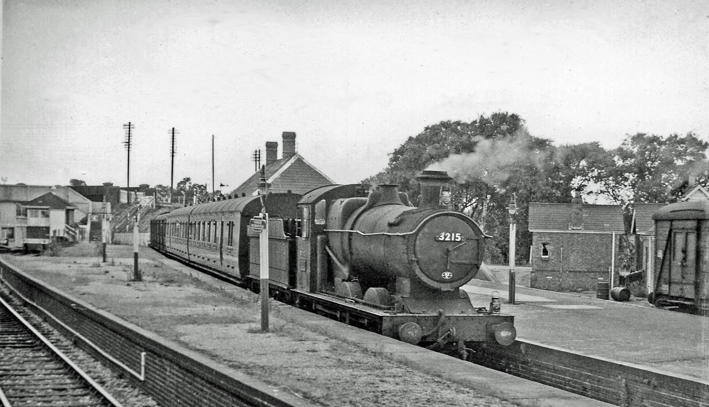 Highbridge (Somerset & Dorset) Station, with train to Evercreech Junction. View westward, towards Burnham-on-Sea: ex-S&D Joint line from Evercreech Junction, closed 7/3/66, although the line on to Burnham-on-Sea closed to passengers 29/10/51 (excursions until 9/62). The Burnham line (on the right) crossed the ex-GW (Bristol & Exeter) main line by a flat junction - just off scene to the left and at the north end of Highbridge (GW) station. (See also ST3246 : Highbridge Station, with Diesel-hauled Down 'Devonian' express). The train here is the 14.20 to Evercreech Junction, headed by Collett '2251' 0-6-0 No. 3215 (built 12/47).